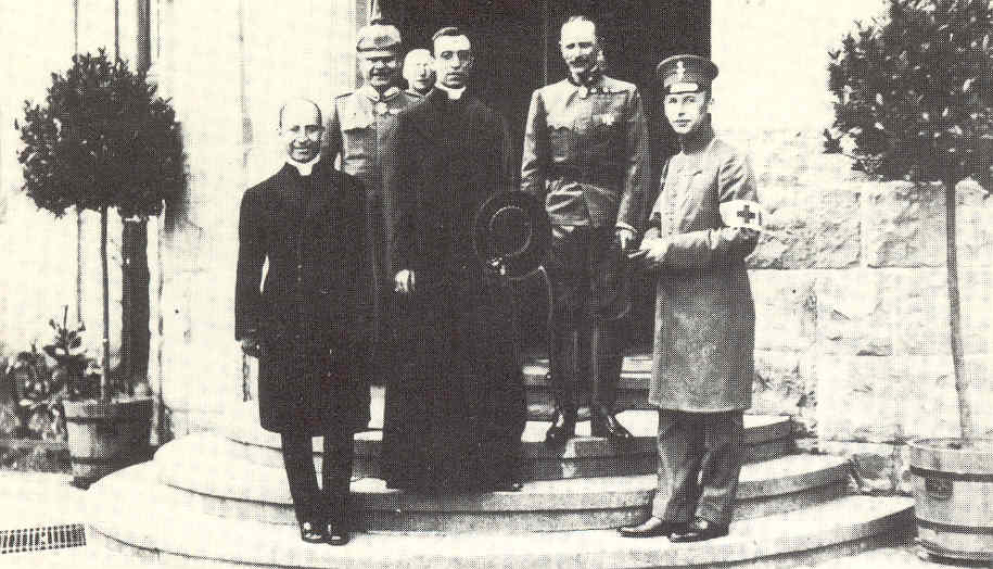 Copyright expired photo of Eugenio Pacelli in 1917 in front of the Imperial German Headquarters after an audience with emperor William II